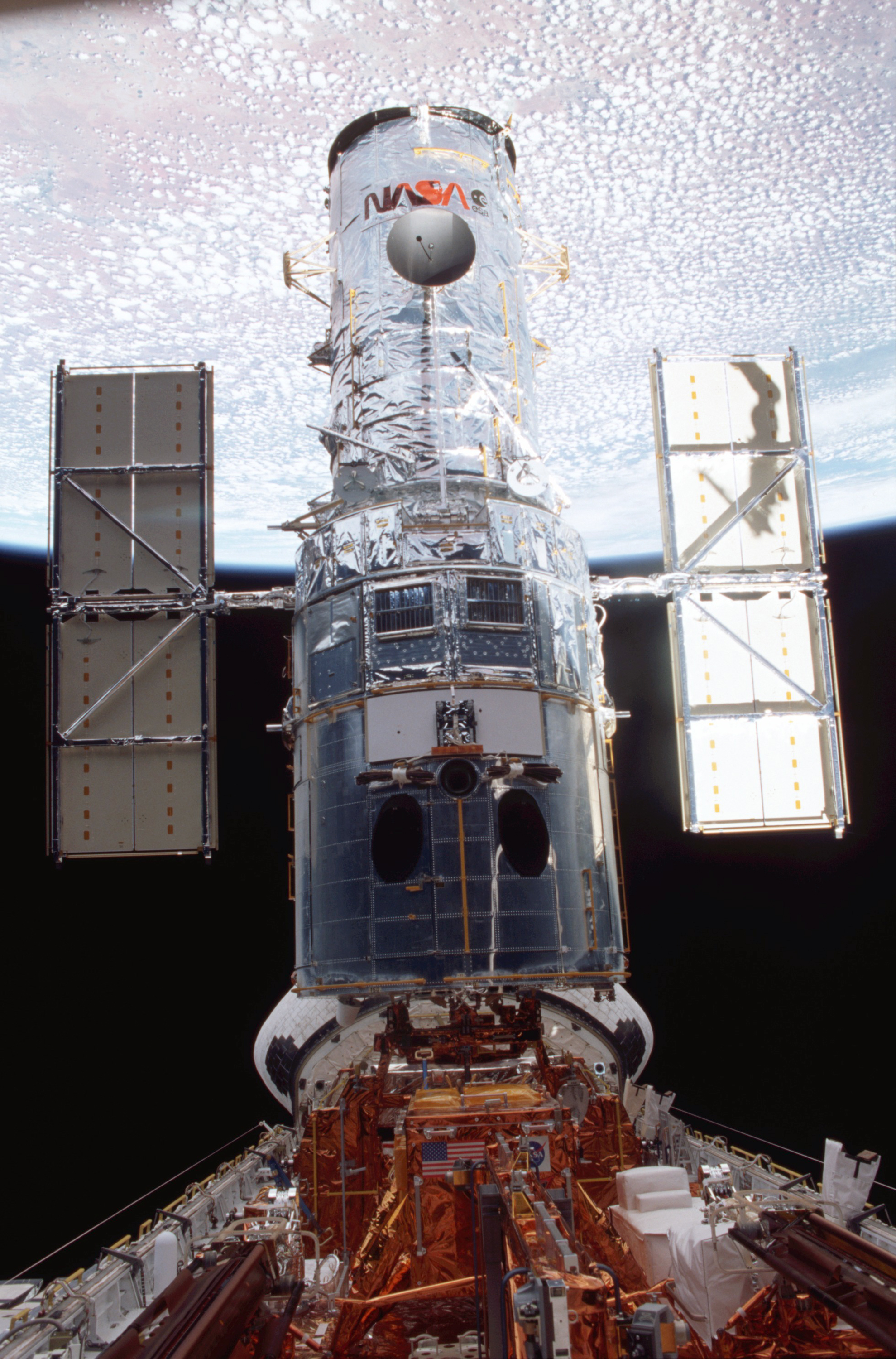 After five days of service and upgrade work on the Hubble Space Telescope (HST), the STS-109 crew photographed the giant telescope in the shuttle's cargo bay. The telescope was captured and secured on a work stand in Columbia's payload bay using Columbia's robotic arm, where 4 of the 7-member crew performed 5 space walks completing system upgrades to the HST. Included in those upgrades were: The replacement of the solar array panels; replacement of the power control unit (PCU); replacement of the Faint Object Camera (FOC) with a new advanced camera for Surveys (ACS); and installation of the experimental cooling system for the Hubble's Near-Infrared Camera and Multi-object Spectrometer (NICMOS), which had been dormant since January 1999 when its original coolant ran out. The Marshall Space Flight Center had the responsibility for the design, development, and construction of the the HST, which is the most complex and sensitive optical telescope ever made, to study the cosmos from a low-Earth orbit. Launched March 1, 2002, the STS-109 HST servicing mission lasted 10 days, 22 hours, and 11 minutes. It was the 108th flight overall in NASA's Space Shuttle Program.